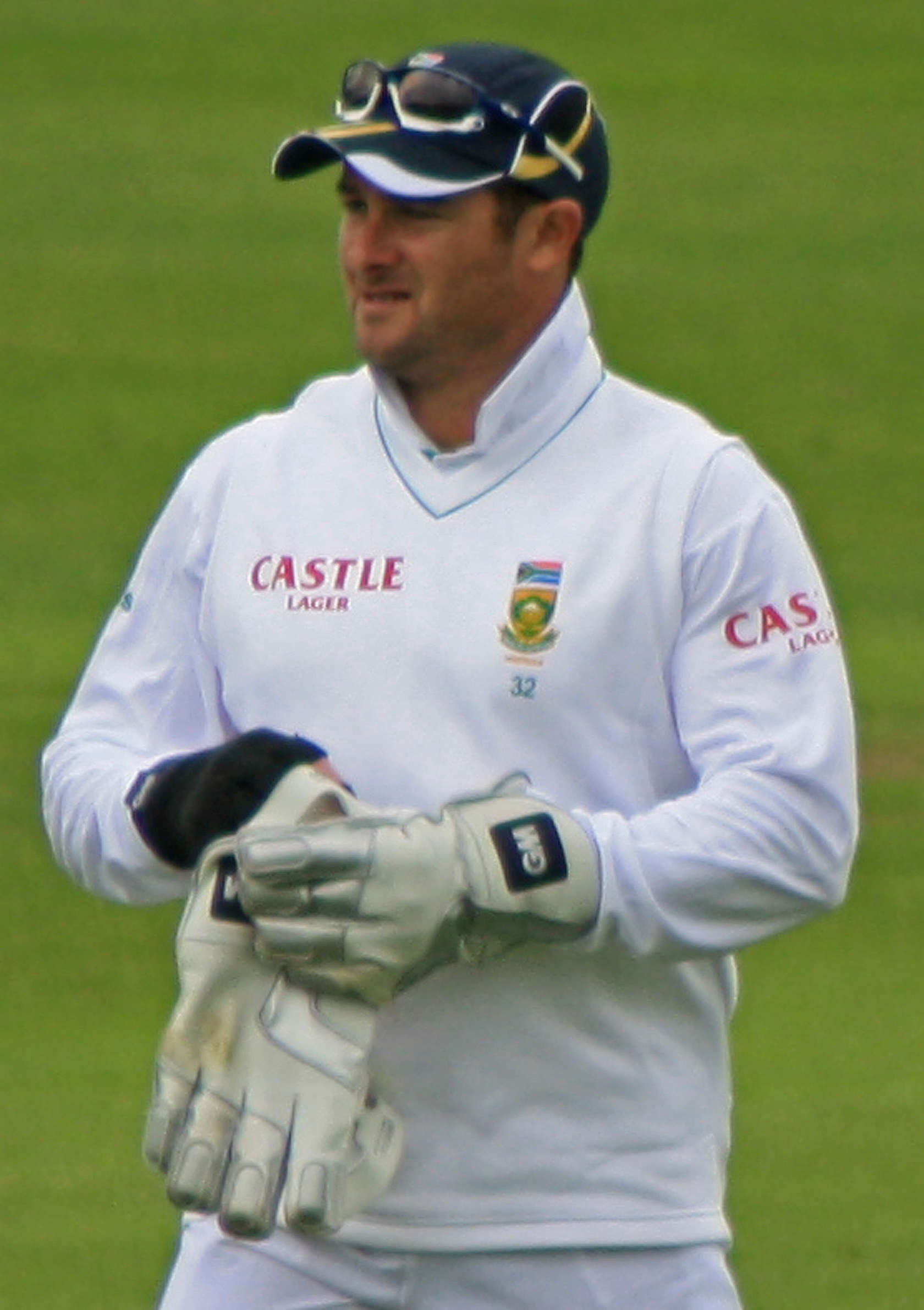 Mark Bouchers in the field for South Africa during a tour match against Somerset in 2012.